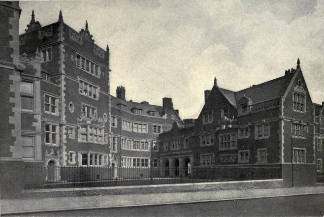 "The Little Quad," Quadrangle Dormitories, University of Pennsylvania, Philadelphia, Pennsylvania, Cope & Stewardson, architects.